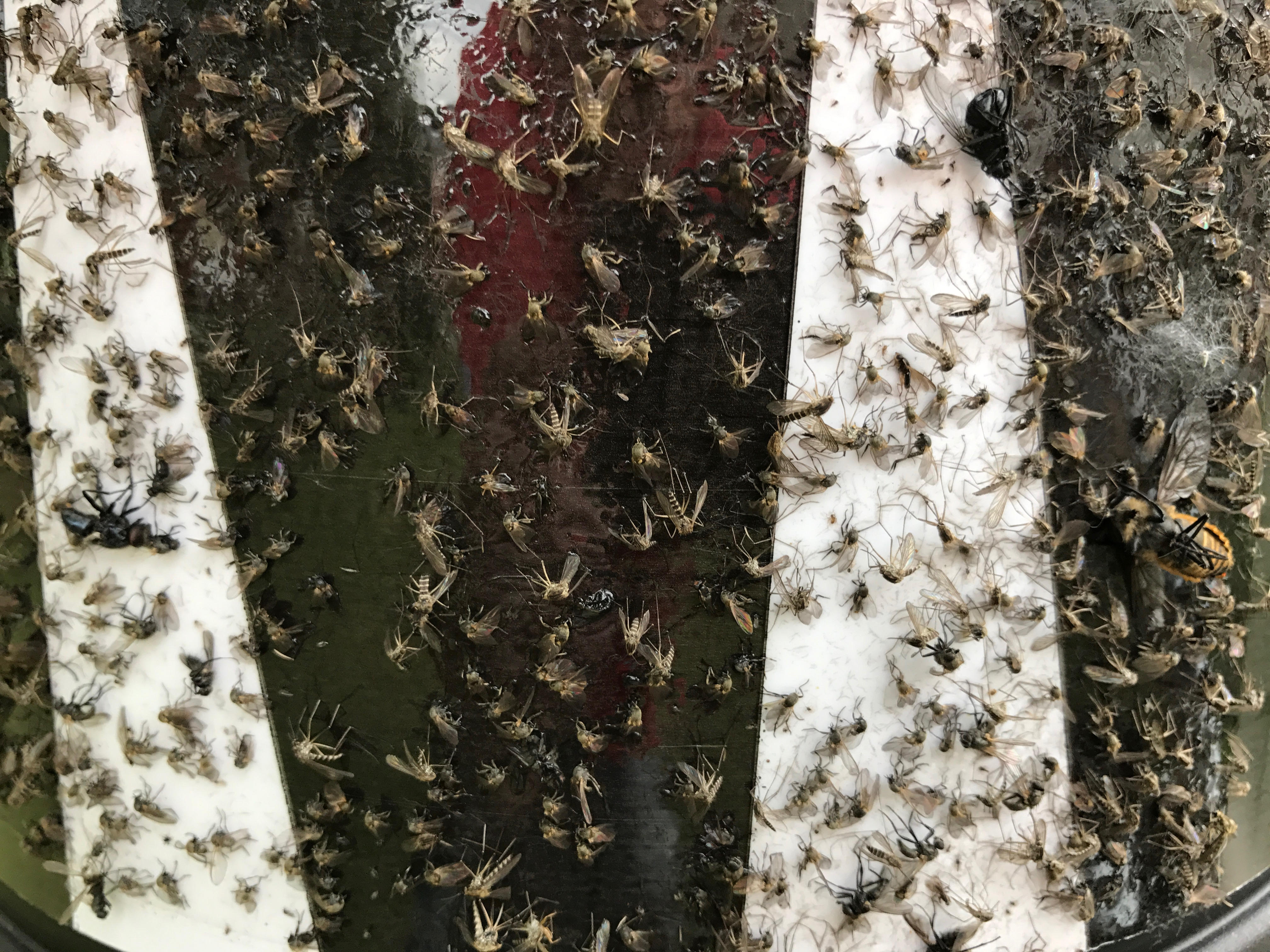 Trapped Mosquitos